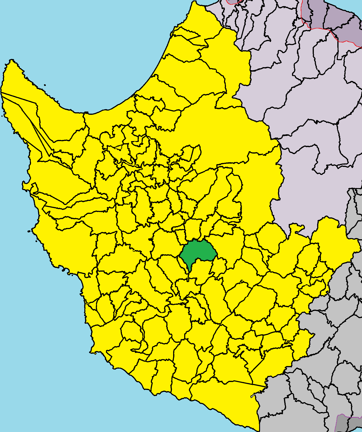 Choulou in Paphos District.